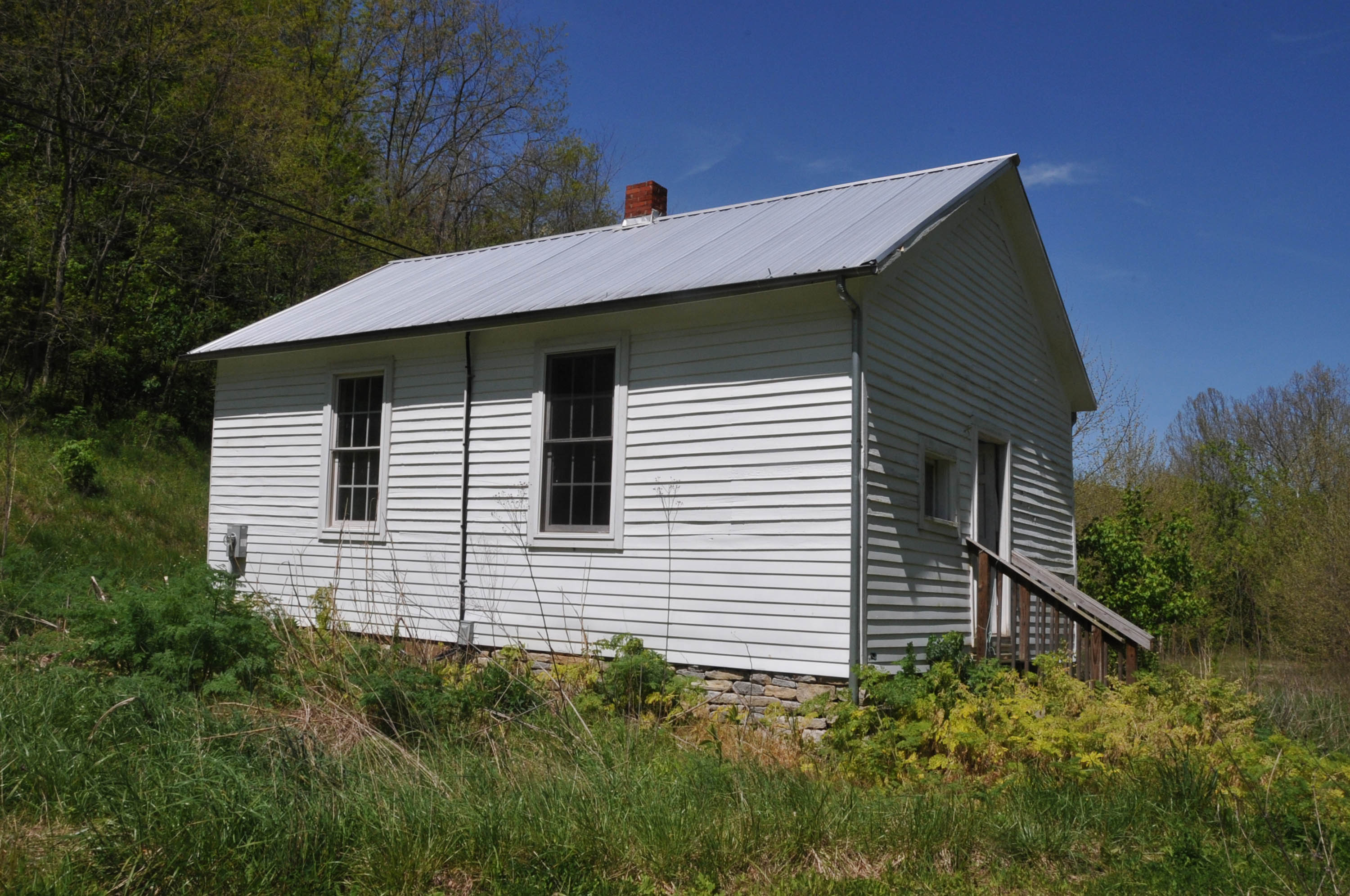 One-room schoolhouse used until 1929